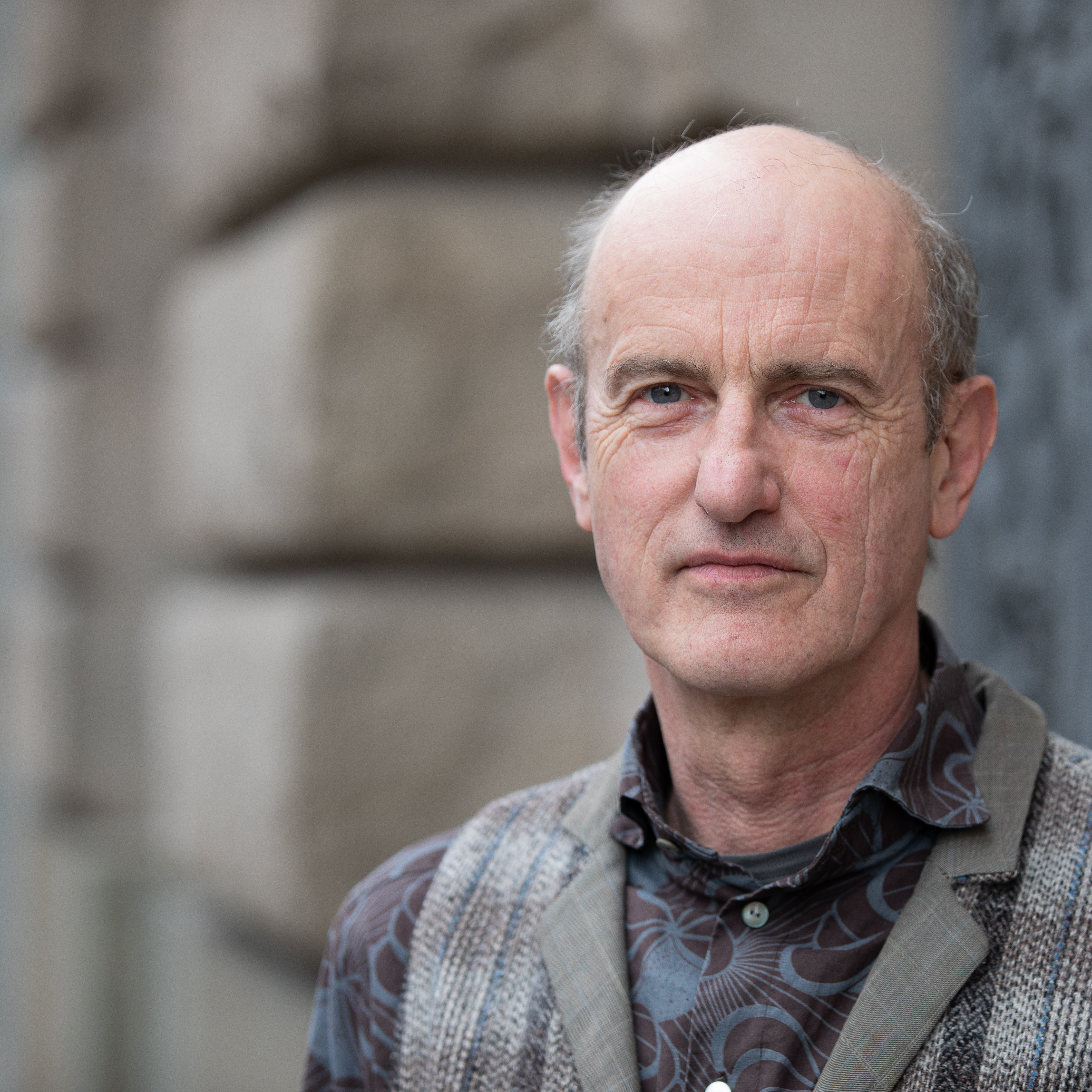 Johannes Herrschmannl at the reception of the Bavarian state government at the Berlinale 2020